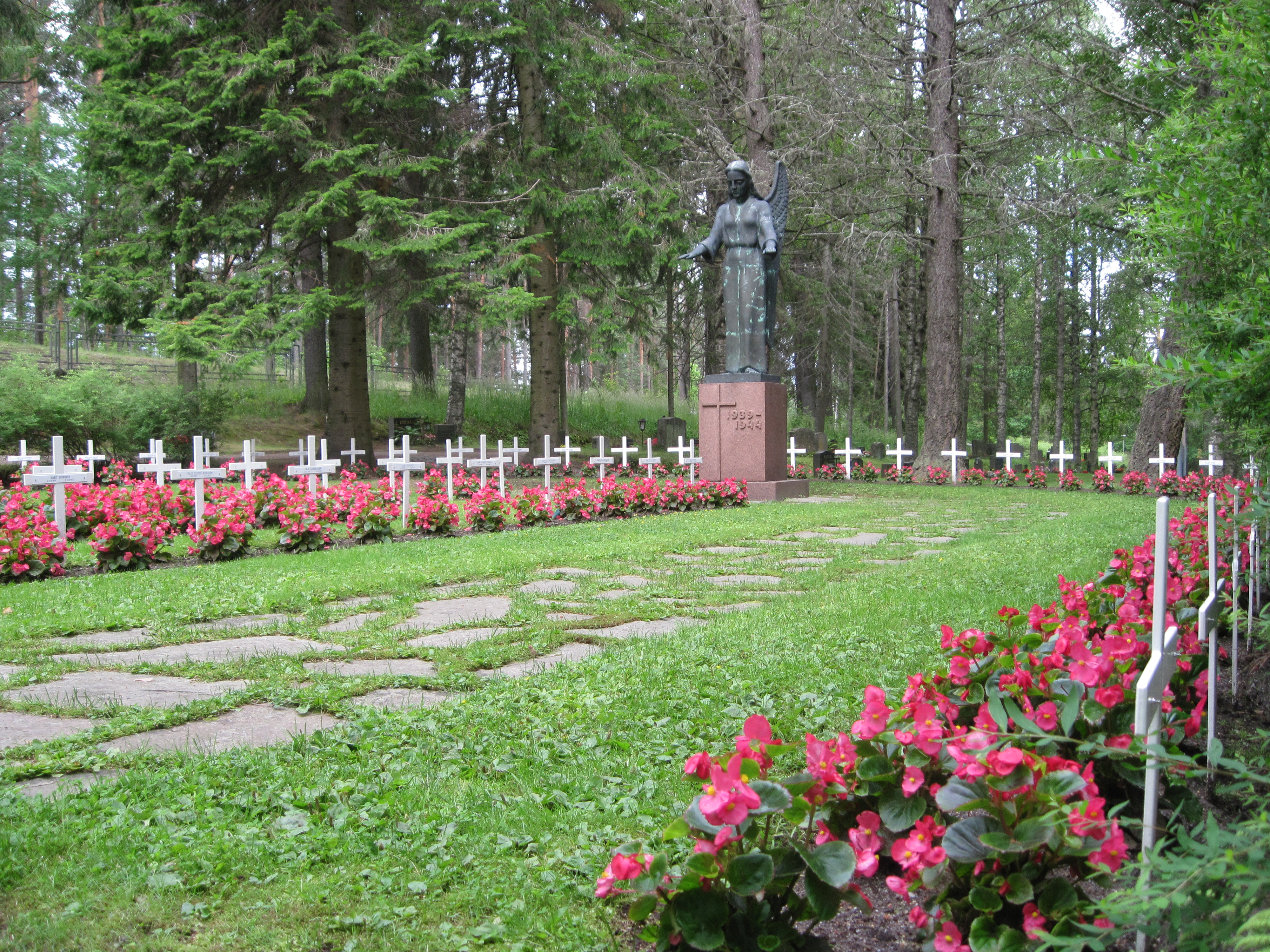 Military cemetary at Church in Riistavesi, Finland